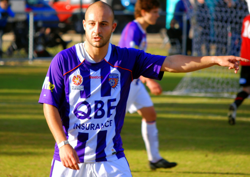 Adriano Pellogrino playing for Perth Glory in a 2 - 1 win in a pre-season match against West Australian State League side Armadale FC.